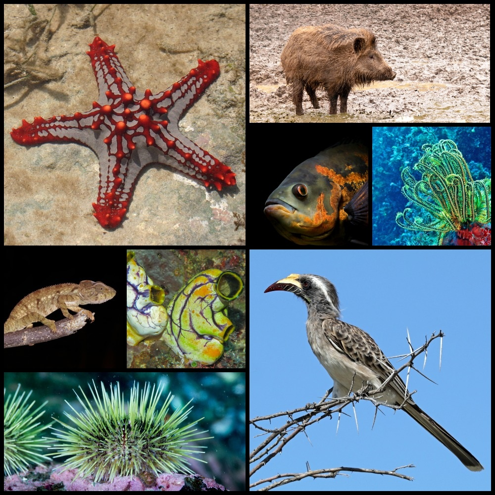 Diversity of Deuterostomia. Mediterranean red sea star (Echinaster sepositus), wild boar (Sus scrofa), Oscar (Astronotus ocellatus), Bennett's feather star (Oxycomanthus bennetti), Panther chameleon (Furcifer pardalis), Ox heart ascidian (Polycarpa aurata), Green sea urchin (Strongylocentrotus droebachiensis) and (Tockus nasutus epirhinus)